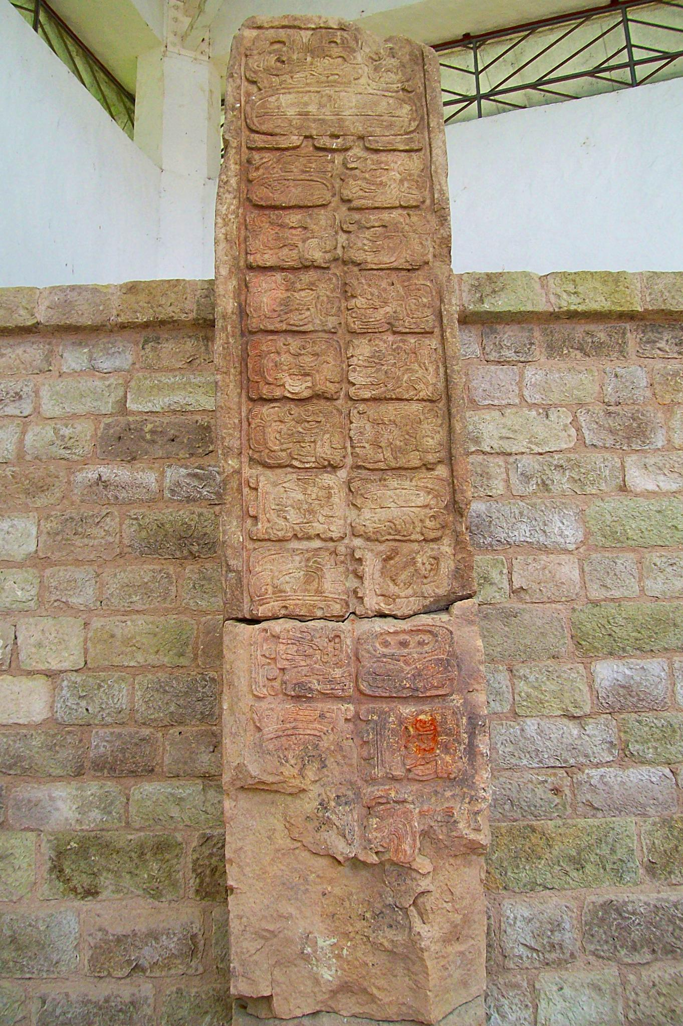 World Heritage Site of Copan, Honduras. Maya stela 63.